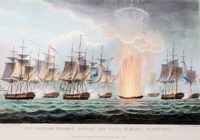 Sir Graham Moore's action off Cape St. Mary, Oct 5th 1804. John Gore. Thomas Sutherland. Taken from the Naval Chronology of Great Britain; Or, An Historical Account of Naval and Maritime Events from the Commencement of the War in 1803 to the End of the Year 1816 ... by James Ralfe.